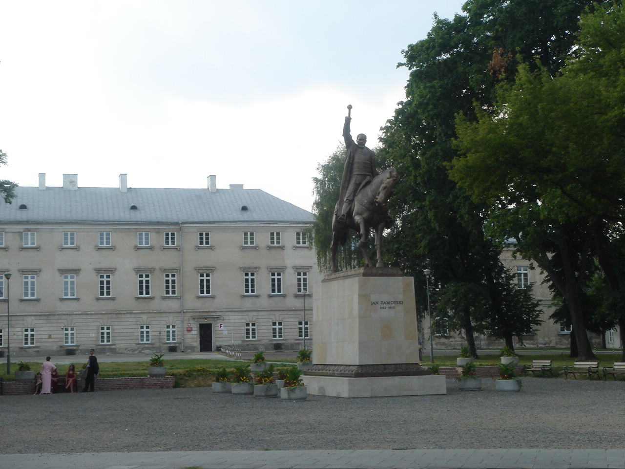 Former Zamoyski Palace and Jan Zamoyski monument in Zamość